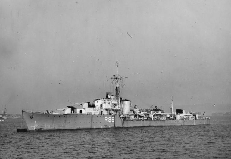 Photograph of British W class destroyer HMS Wager, on completion.